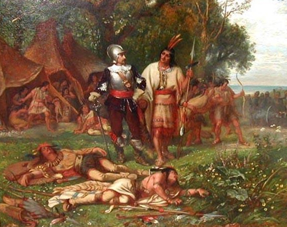 Oil on canvas, signed and dated at the bottom right : Imogene Robinson Morrel- PARIS 1874 (cropped)